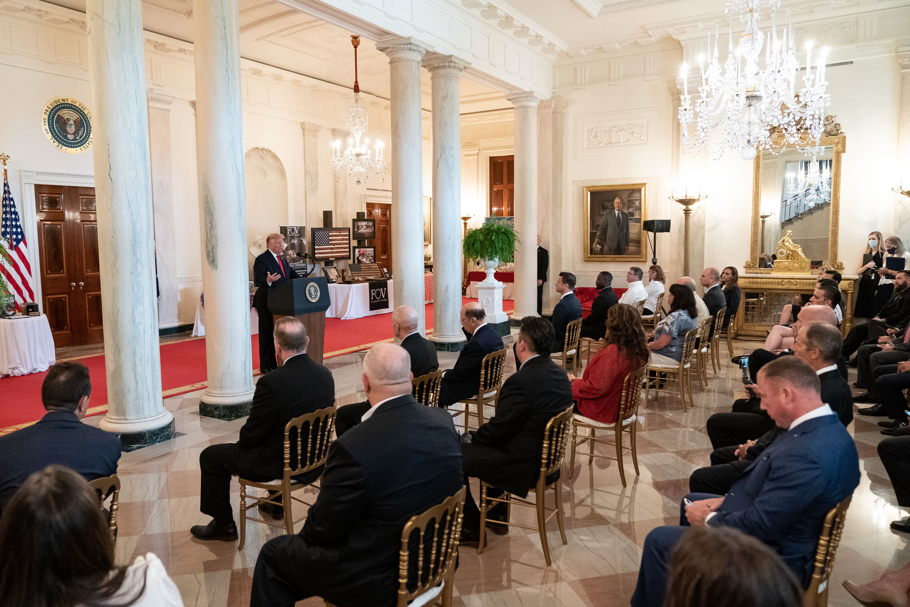 President Donald J. Trump delivers remarks at the Spirit of America Showcase Thursday, July 2, 2020, in the Grand Foyer of the White House. (Official White House Photo by Shealah Craighead)